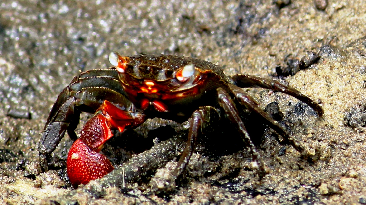 fiddler crab from pazhayangadi,Kerala,Kannur,India